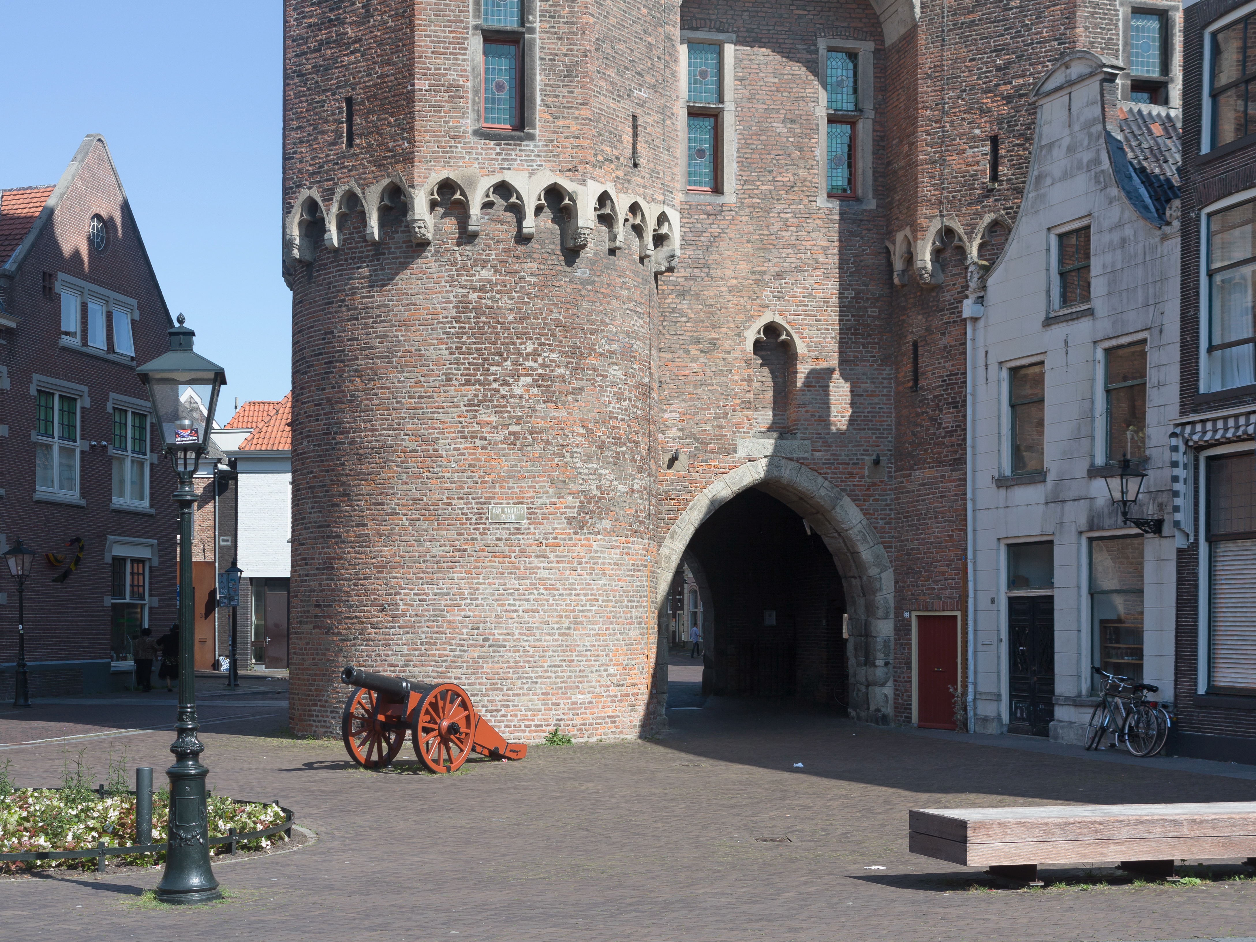 Zwolle, cannon near town gate (de Sassenpoort)